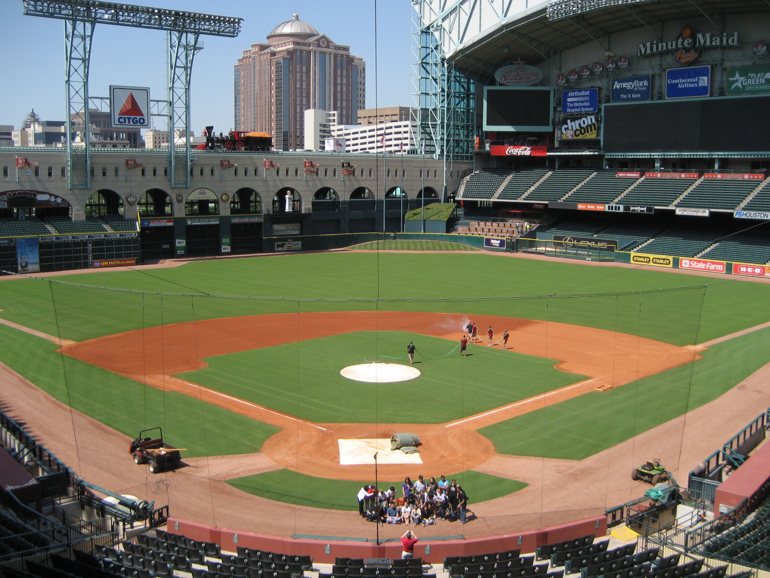 View of Minute Maid Park in Houston, Texas during the 2009-2010 offseason.